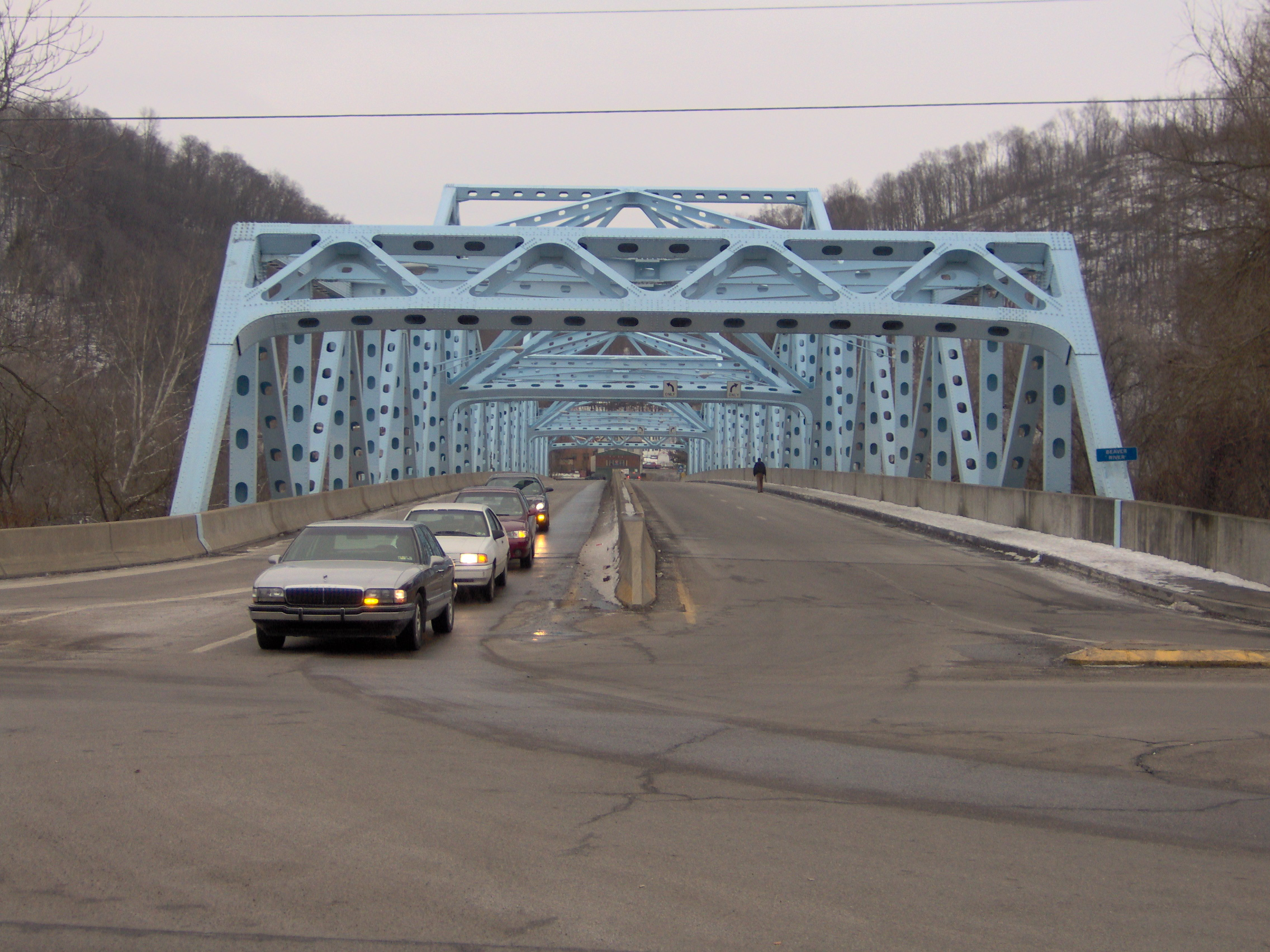 Beaver Falls end of the Eastvale Bridge, which carries Route 588 between Beaver Falls and Eastvale over the Beaver River in Beaver County, Pennsylvania, United States.